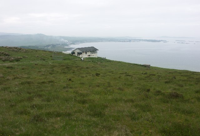 Port Ellen from Beinn Leathaig.